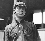 Photo of Major League Baseball player Bill Bergen, taken in 1903